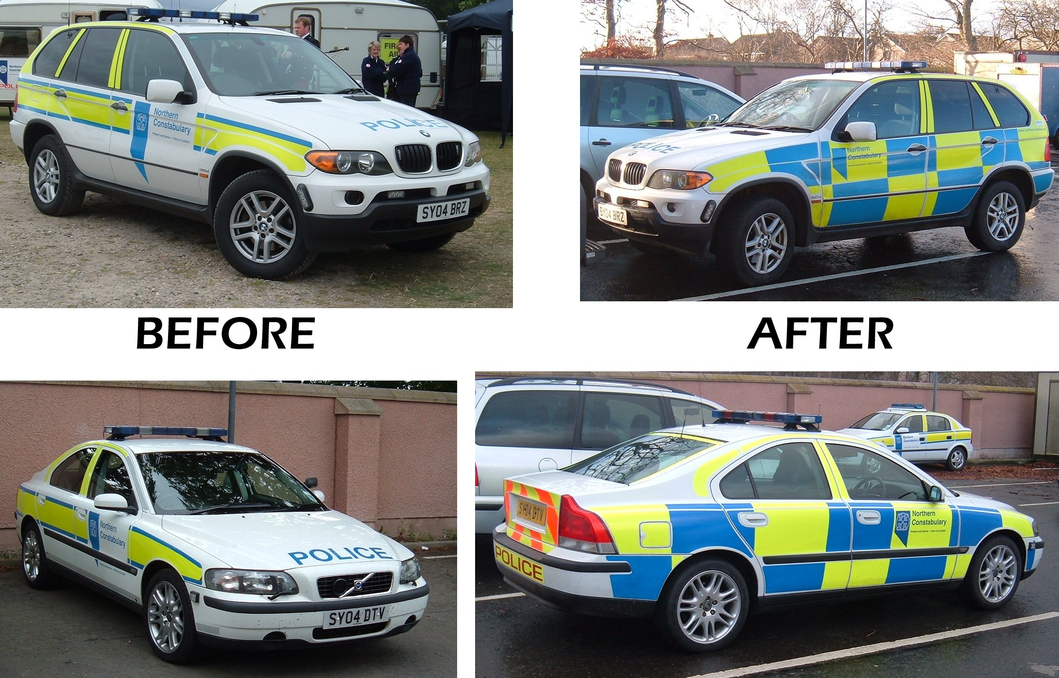 1,000 views on 31st March 2011In late 2005, Northern Constabulary began the transition from their own unique Force livery to the standard ACPO/ACPOS "Battenberg" styling. The only vehicles to be re-liveried were those of the Road Policing Unit (formerly a.k.a. HQ Traffic Dept). Other (General Purpose and Local Response) fleet vehicles were to remain as before, but all new vehicles taken into service would receive the new livery. the Force title, logo and English/Gaelic motto will continue to be used but in a smaller size.